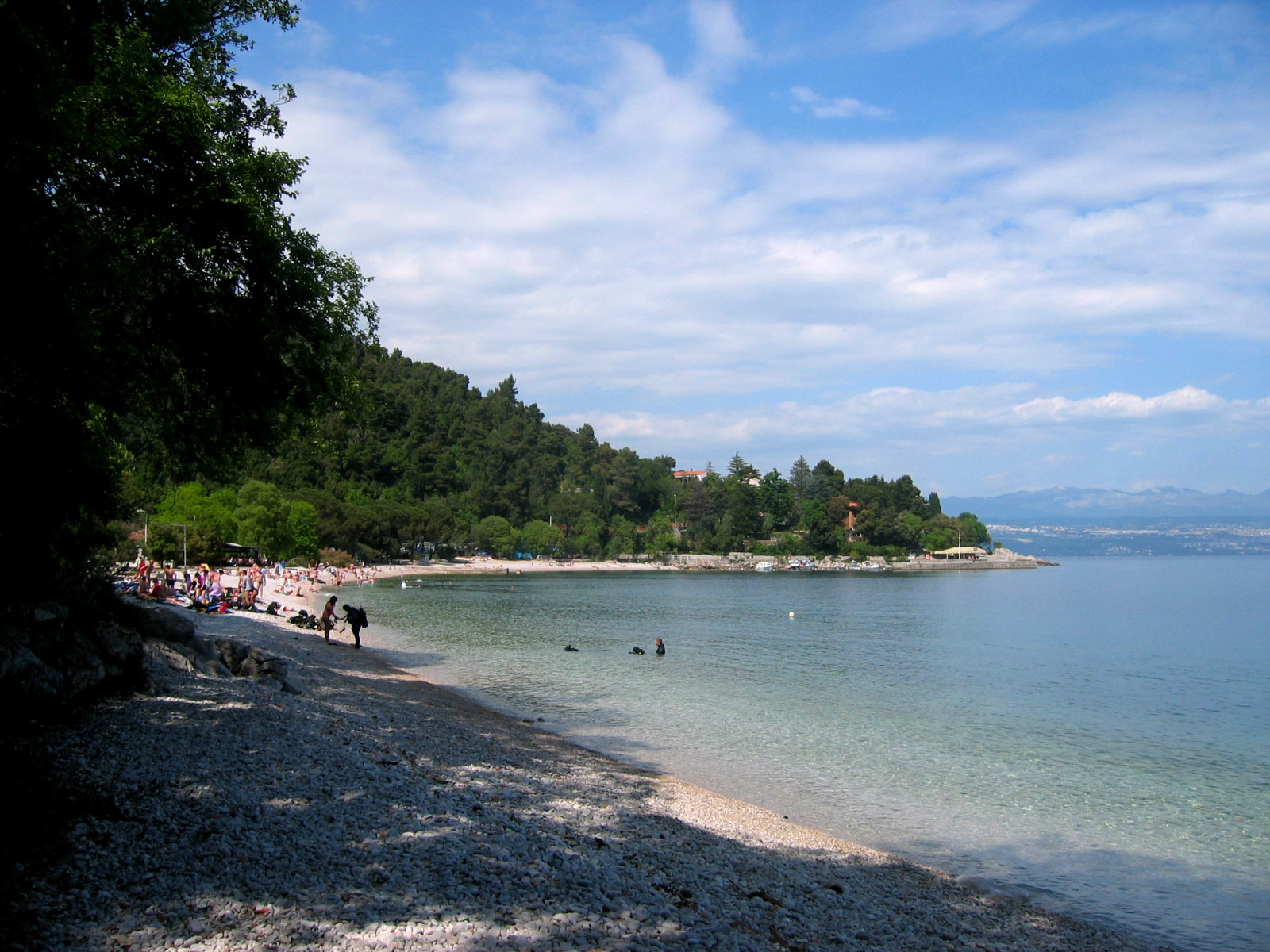 Medveja (beach), village in Istra (Croatian coast)